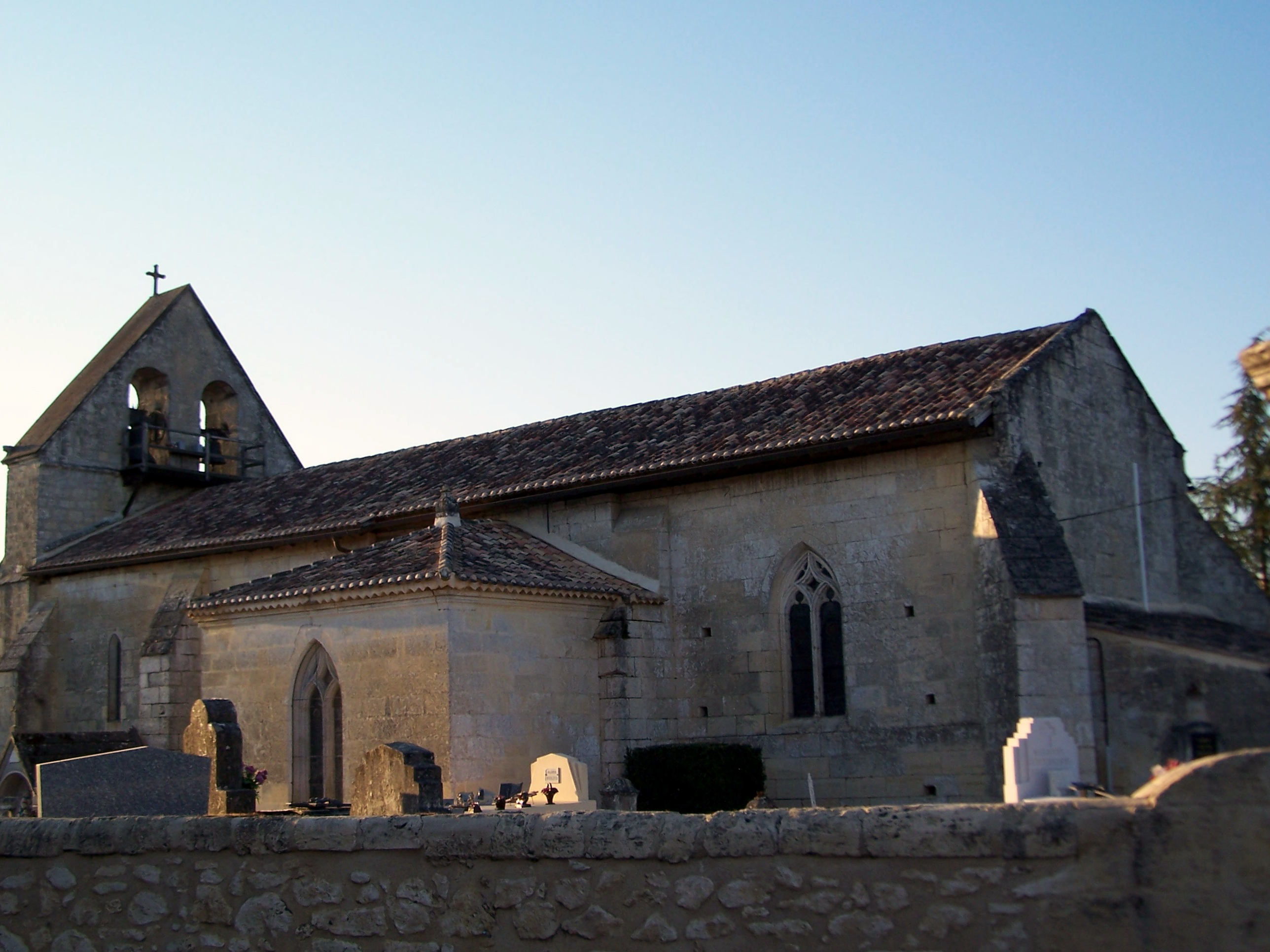 Saint Martin church of Jugazan (Gironde, France)